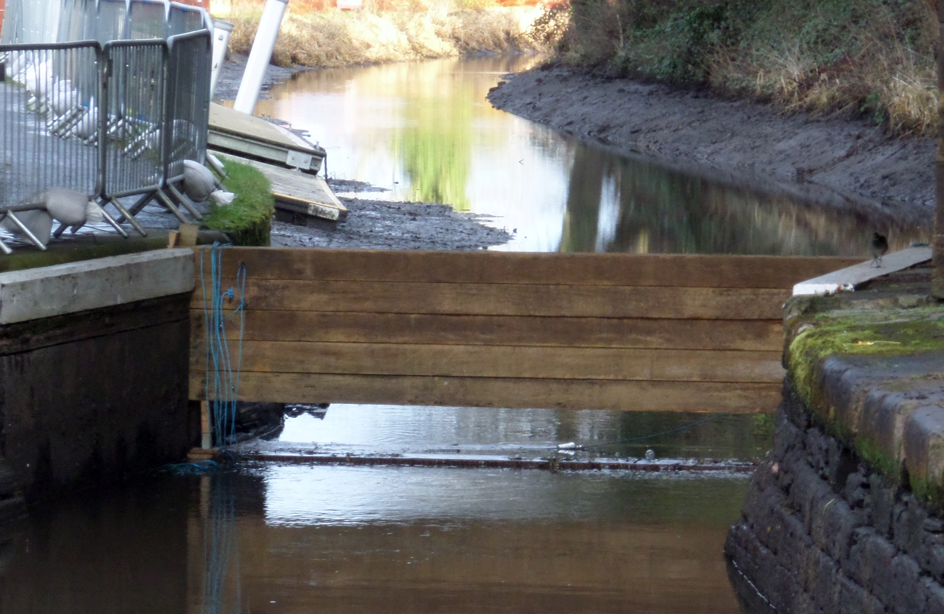 Detail of Canal Safety Gate, Linlithgow Basin, Union Canal, Scotland.